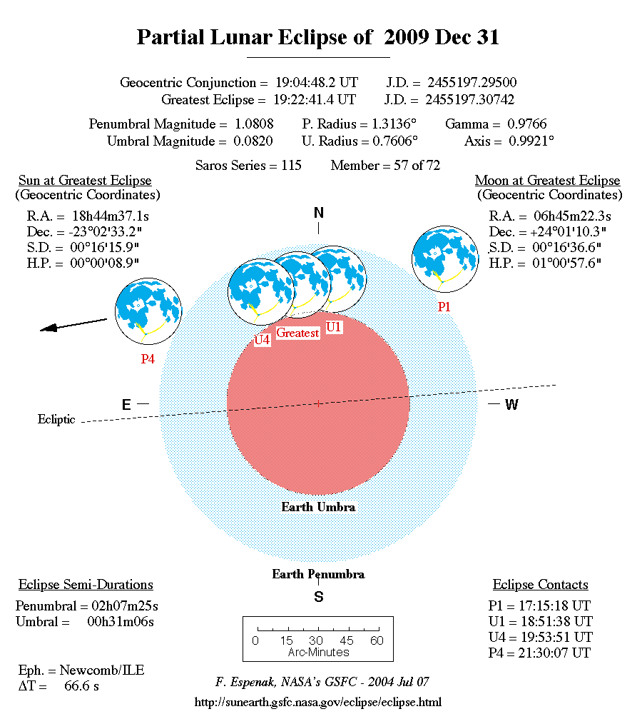 Sketch of the 2009-12-31 lunar eclipse.